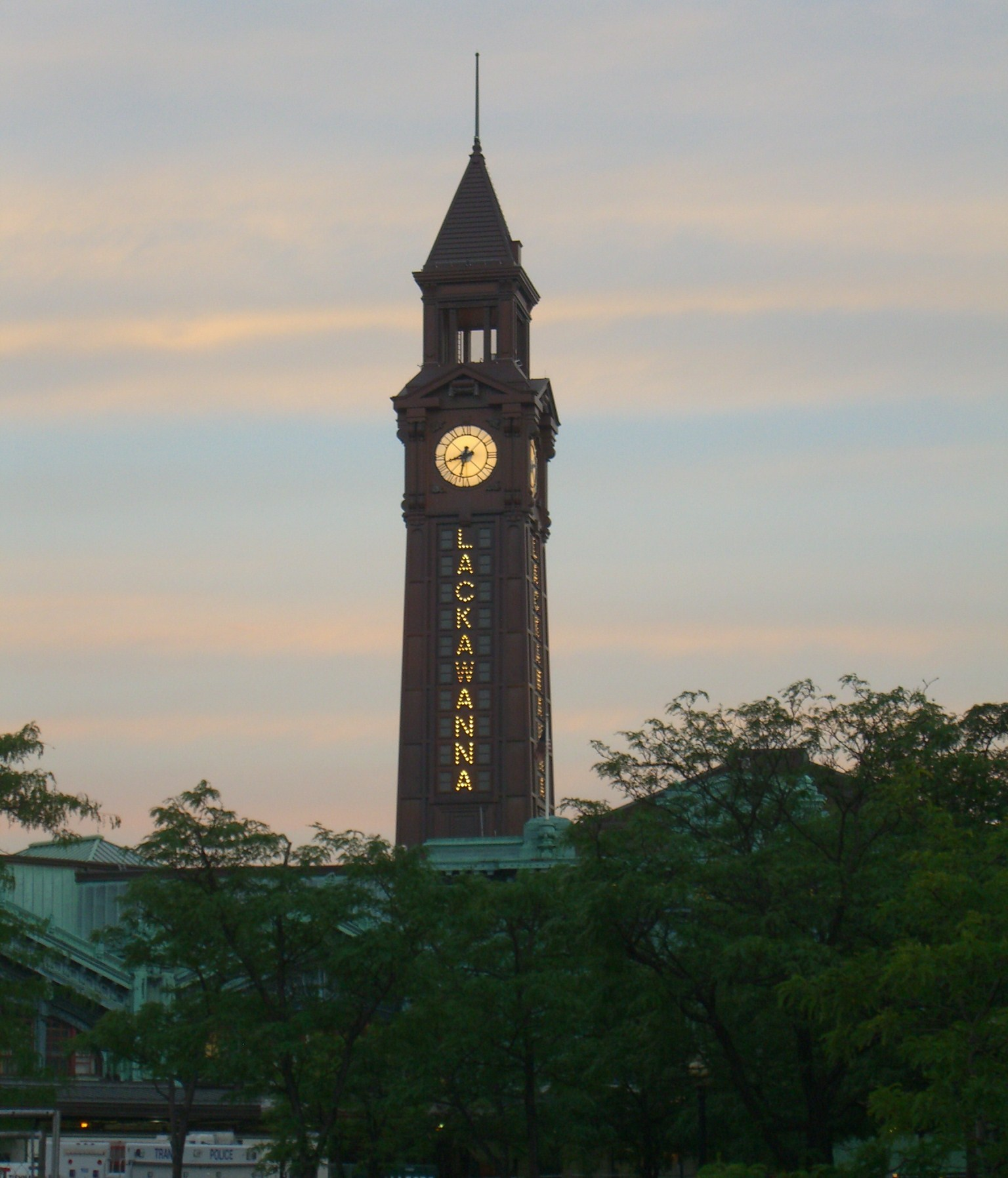 The Lackawanna Tower at Hoboken Terminal at Warrington Plaza in in Hoboken, New Jersey, as seen from Frank Sinatra Park. Photo by Luigi Novi. This photo may be used and modified, for any purpose, only if the photographer is visibly credited in each instance in which it is used. (See licensing information below.) For more information on my photos, you can contact me here.